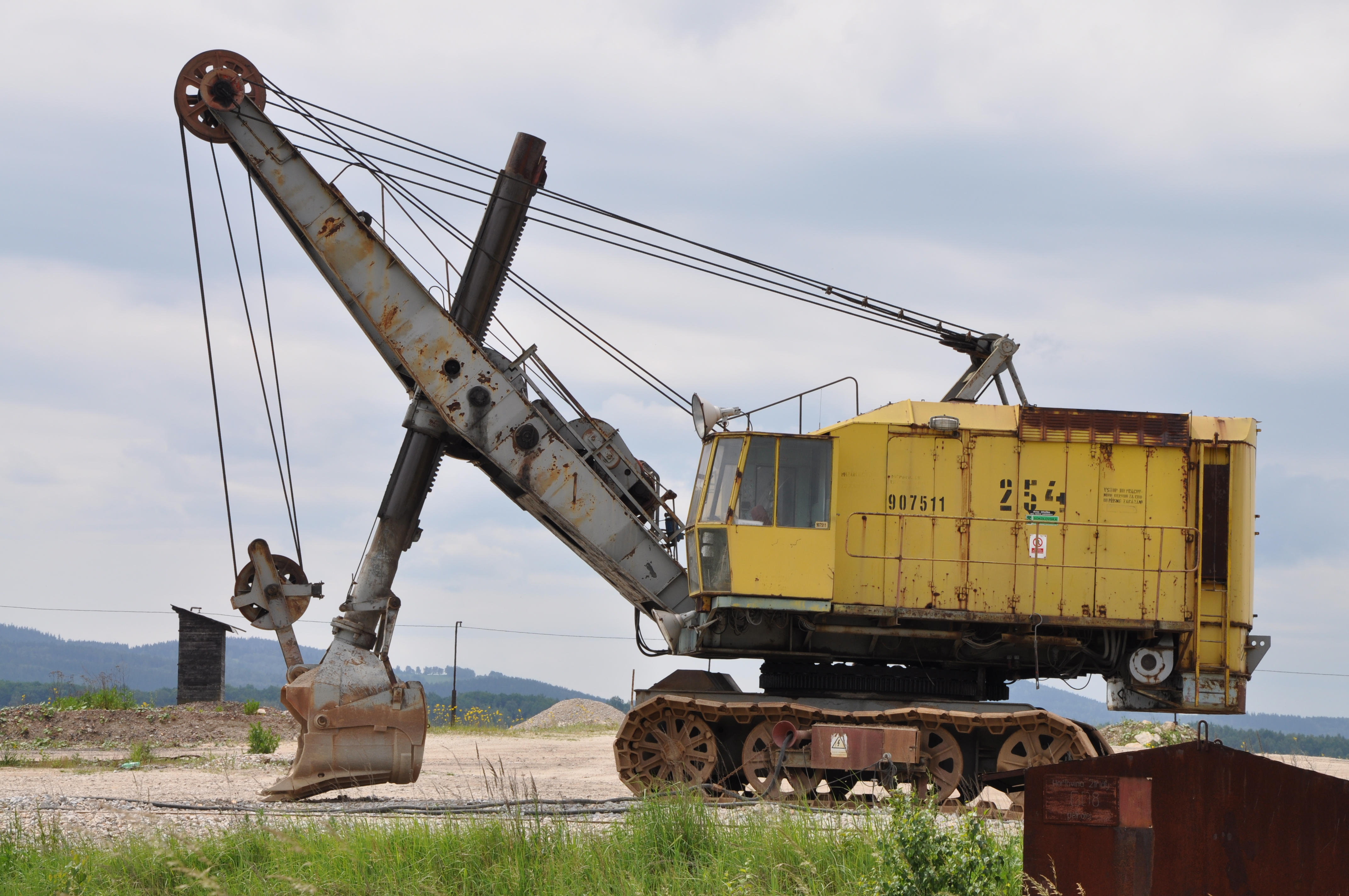 Coal mine excavator, Sokolov District, Karlovy Vary Region, Czech Republic